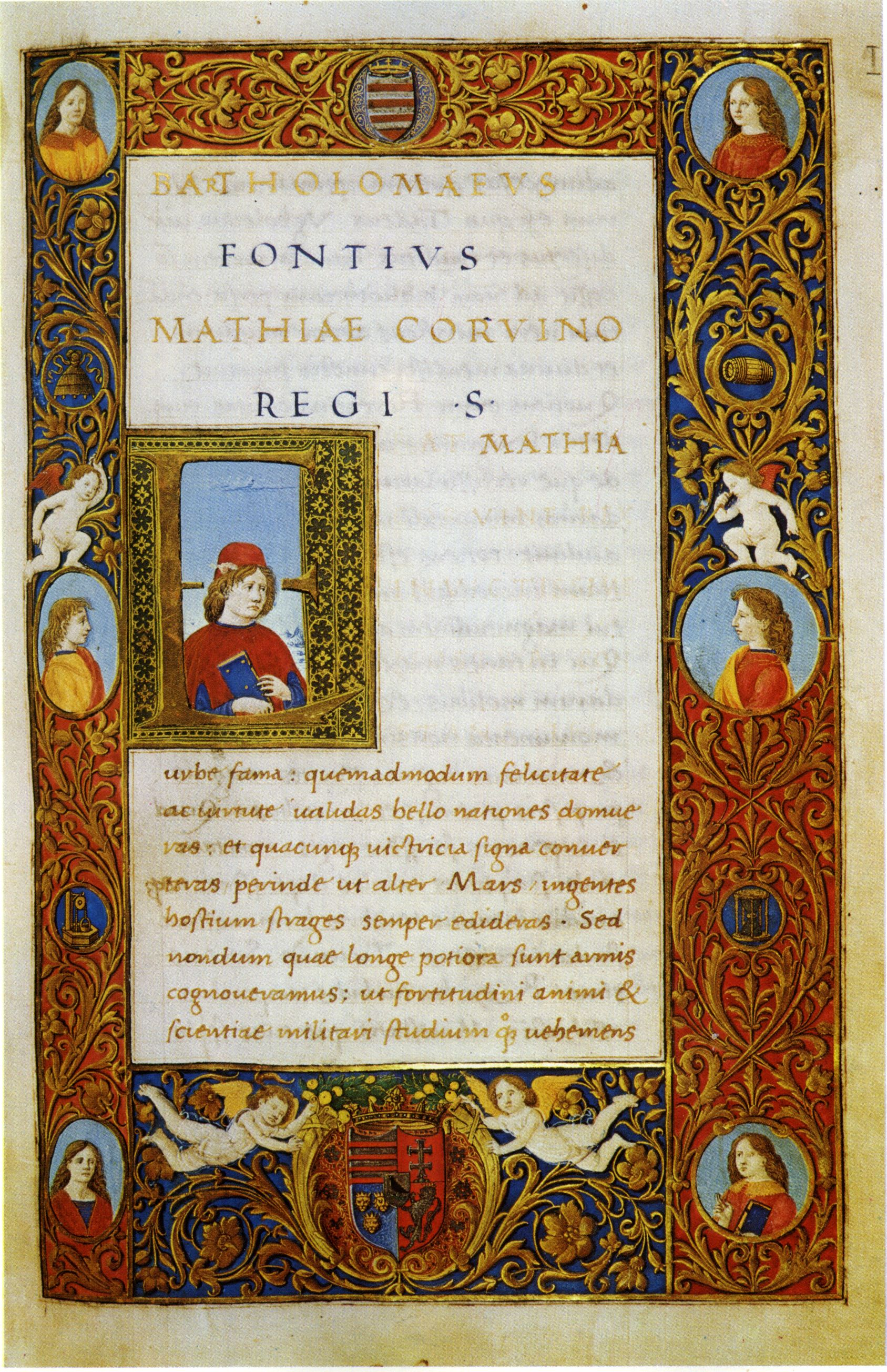 Bartolomeo della Fonte (Bartholomaeus Fontius), dedication copy (autograph) of his works for king Matthias Corvinus, written in 1488. Wolfenbüttel, Herzog August Bibliothek, Cod. Lat. 43, Aug. 2°, fol. 1r.